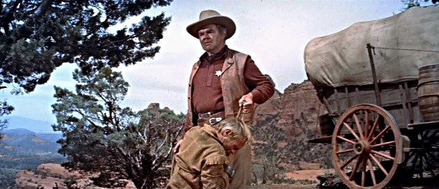 This image is a screenshot from a public domain trailer for the 1956 film, The Last Wagon . Trailers for movies released before 1964 are in the Public Domain because they were never separately copyrighted.